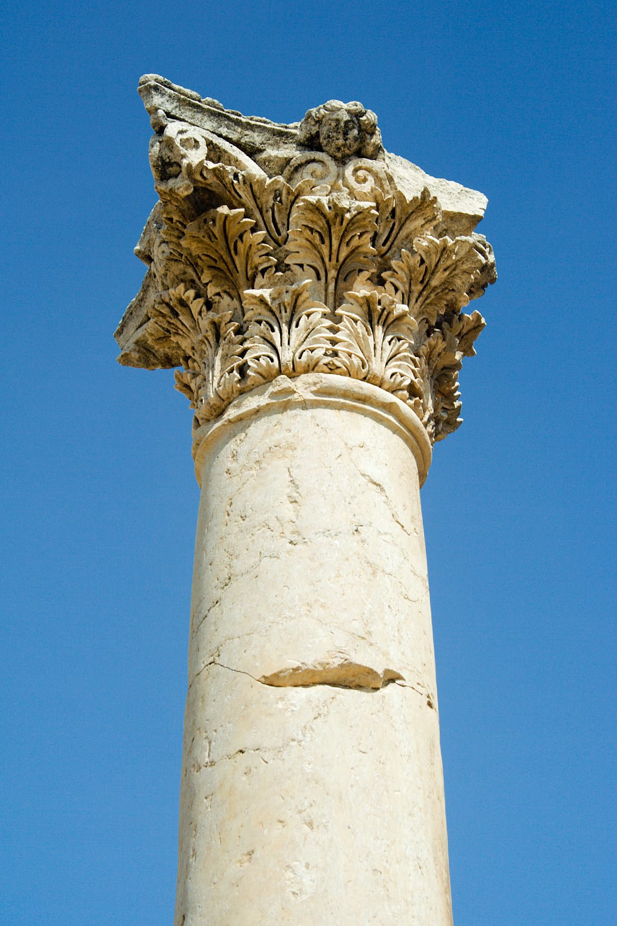 One of many largely intact Corinthian-style columns in ancient Jerash, Jordan.